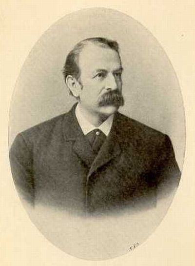 Photography of Rudolf Berlin (1833-1897).